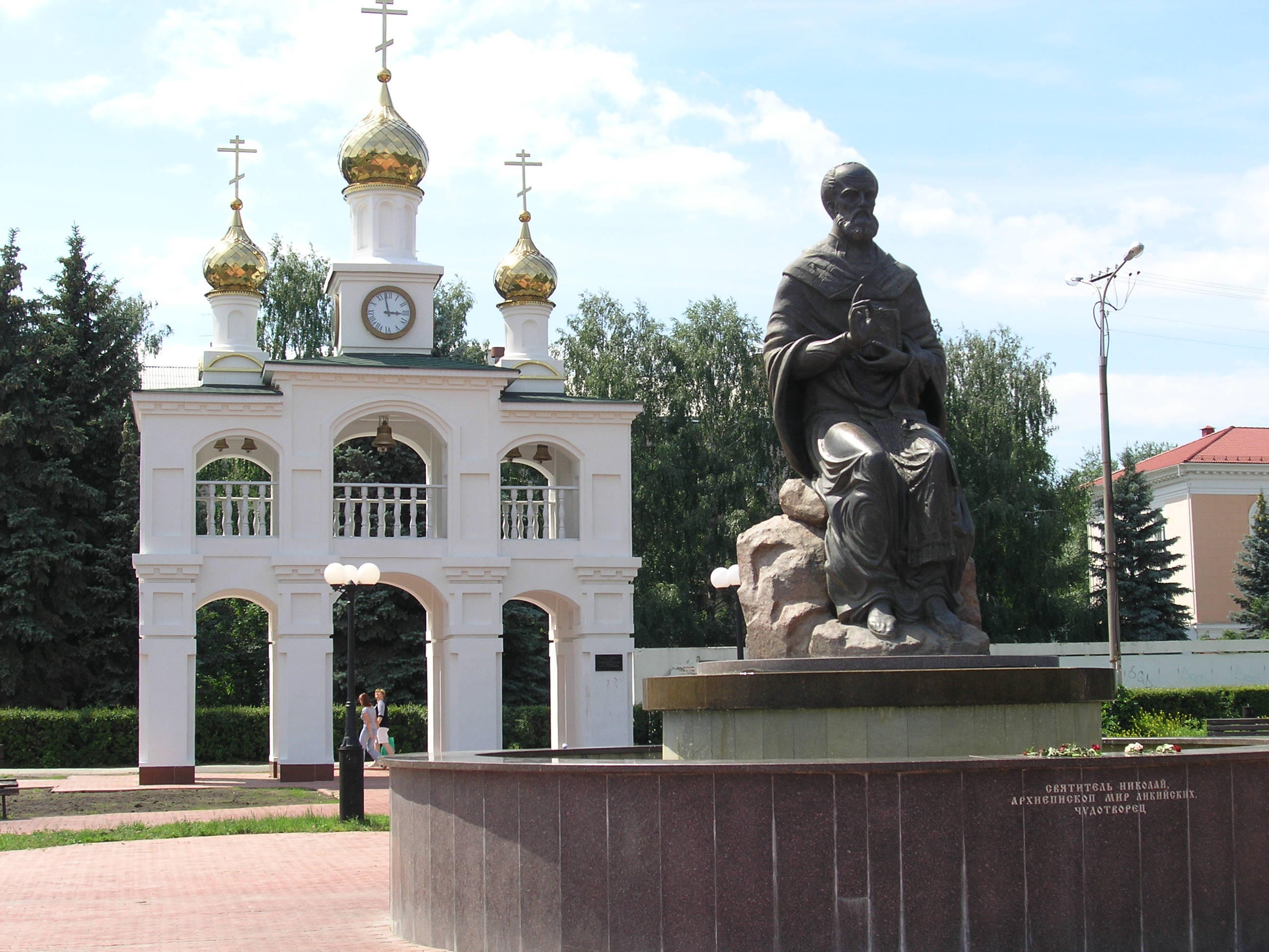 Memorial to builders of city, Tolyatti. Russia